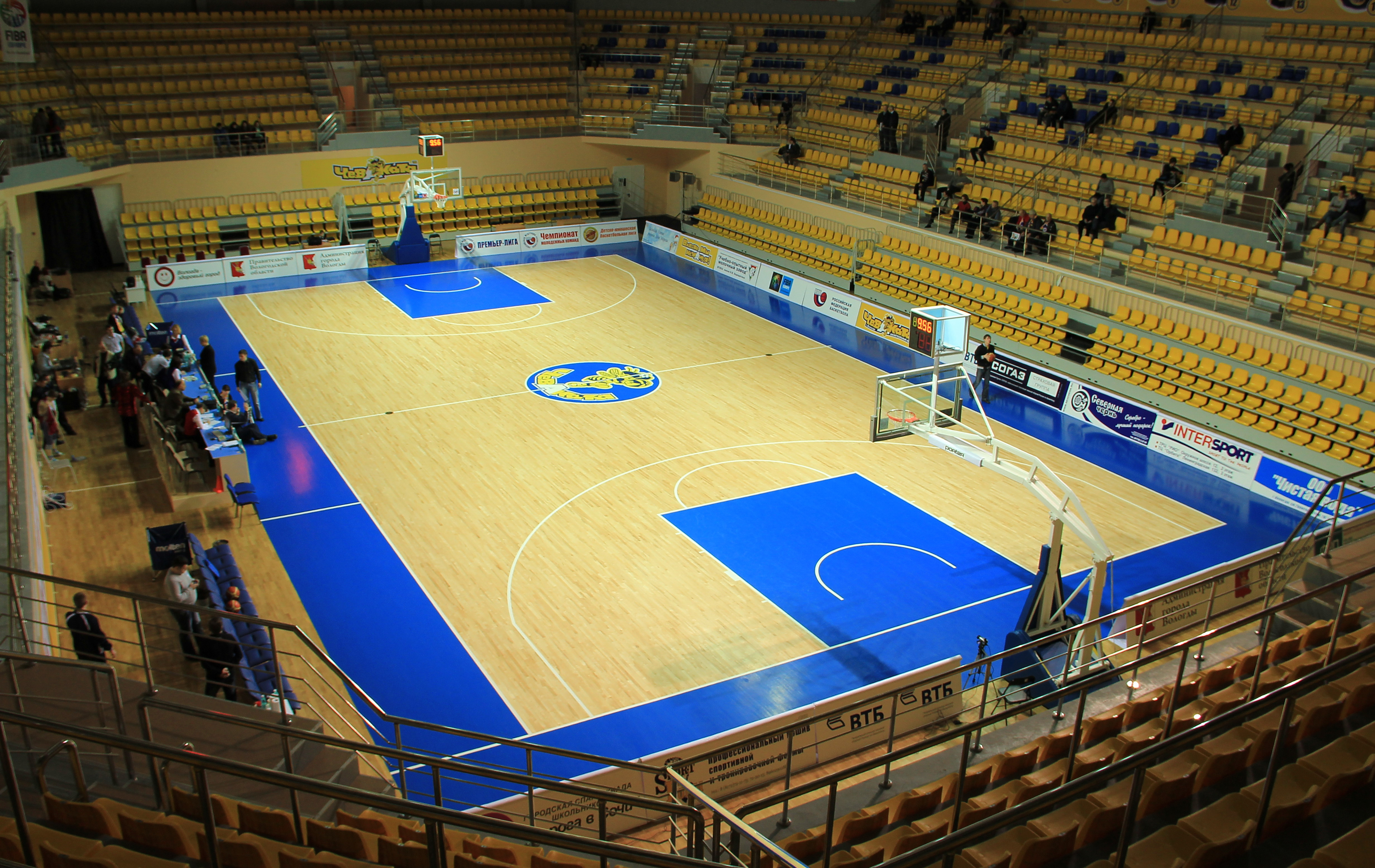 Russia, Vologda, Sports Palace (2012)